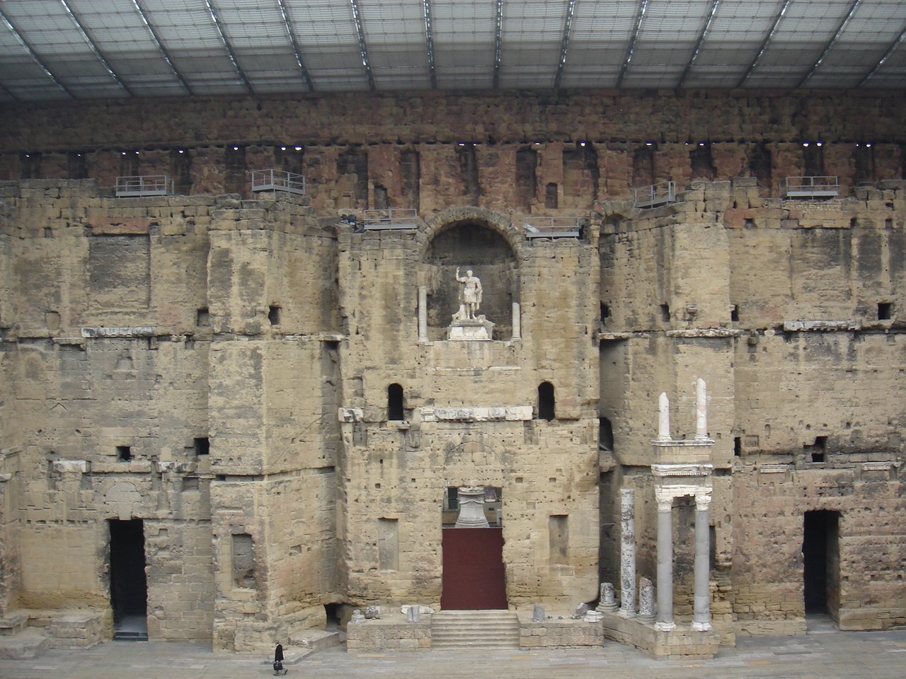 The Roman Theatre of Orange, the stage.